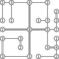 Solved version of a Bridges puzzle that I created myself. From my testing, it appears that this is the unique solution.